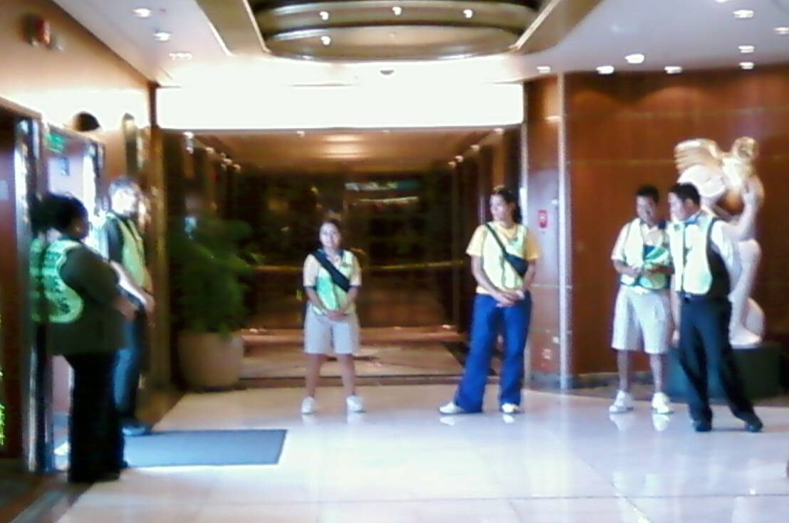 A muster drill in progress